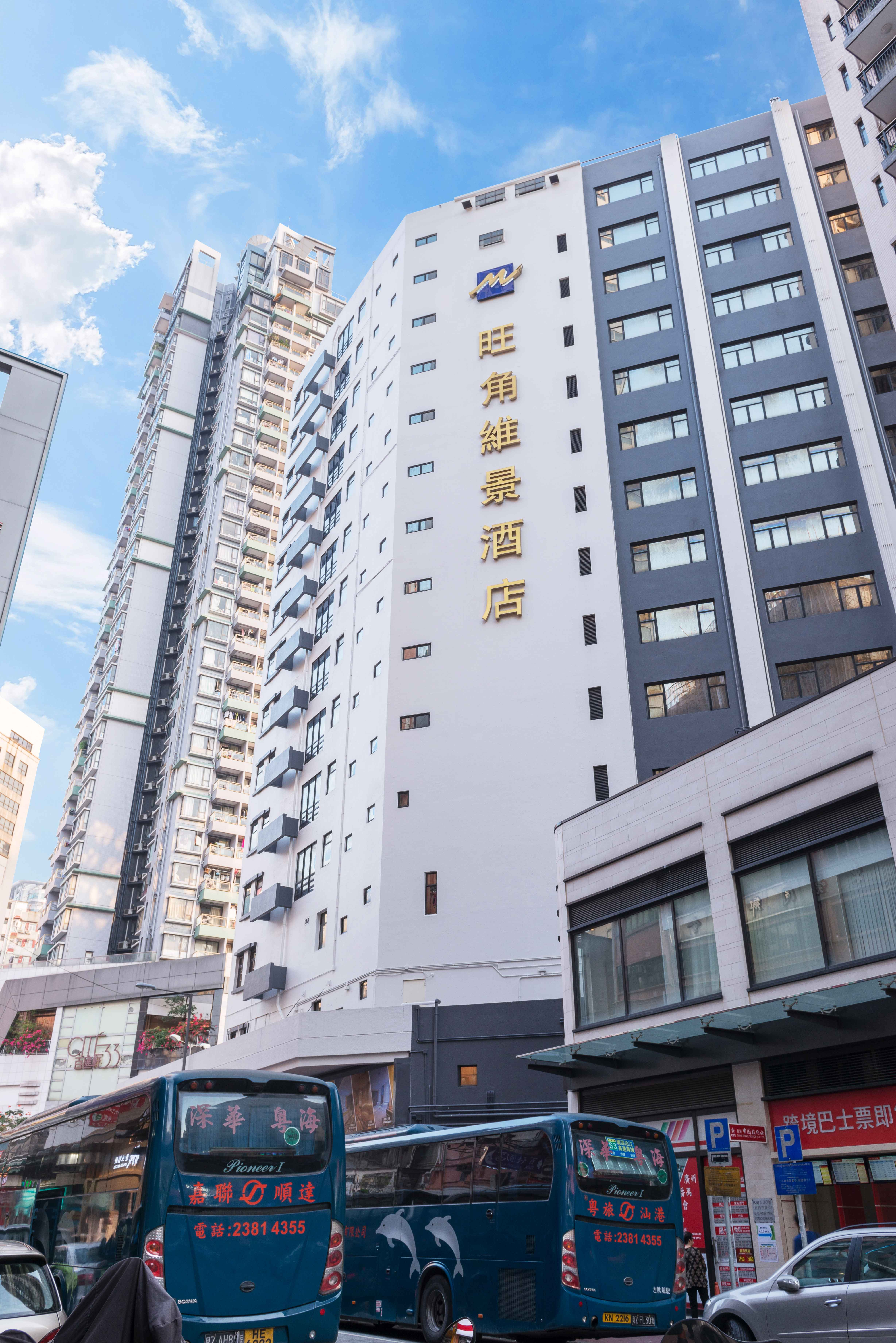 Metropark Hotel Mongkok